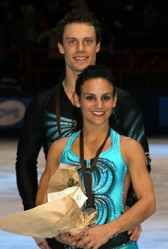 Meagan Duhamel and Craig Buntin during the medas ceremony at the 2008 Trophée Eric Bompard.